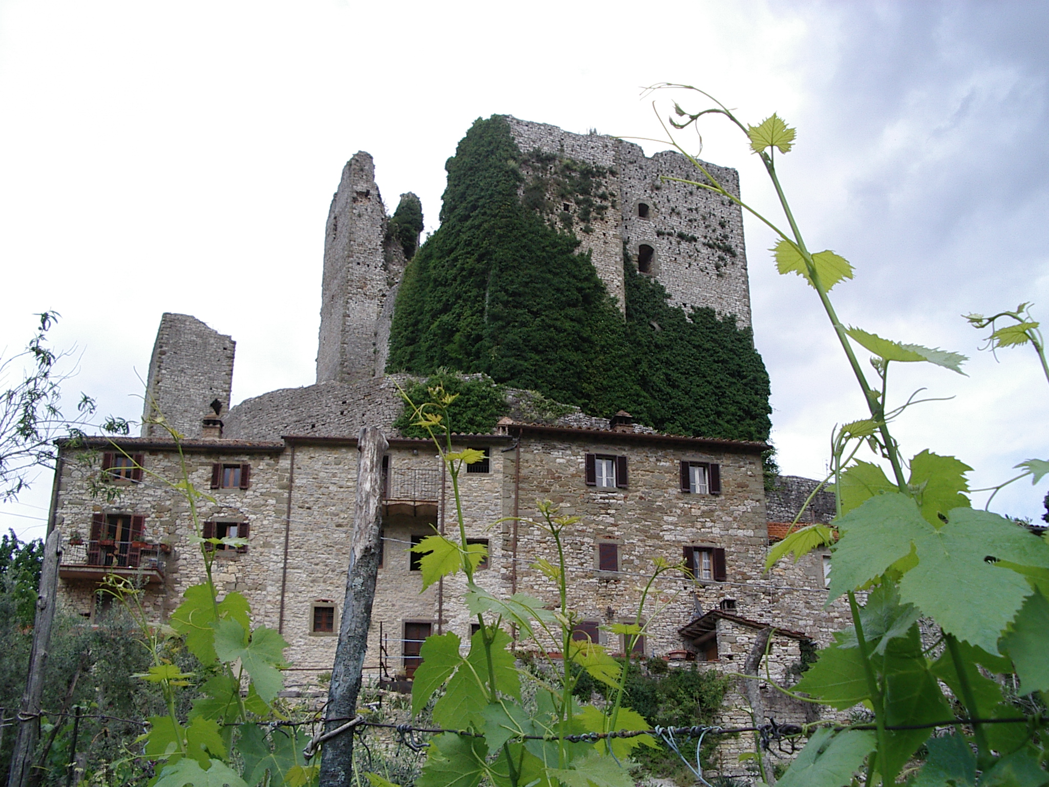 Castle of Pierle Cortona, Arezzo, Tuscany, Italy